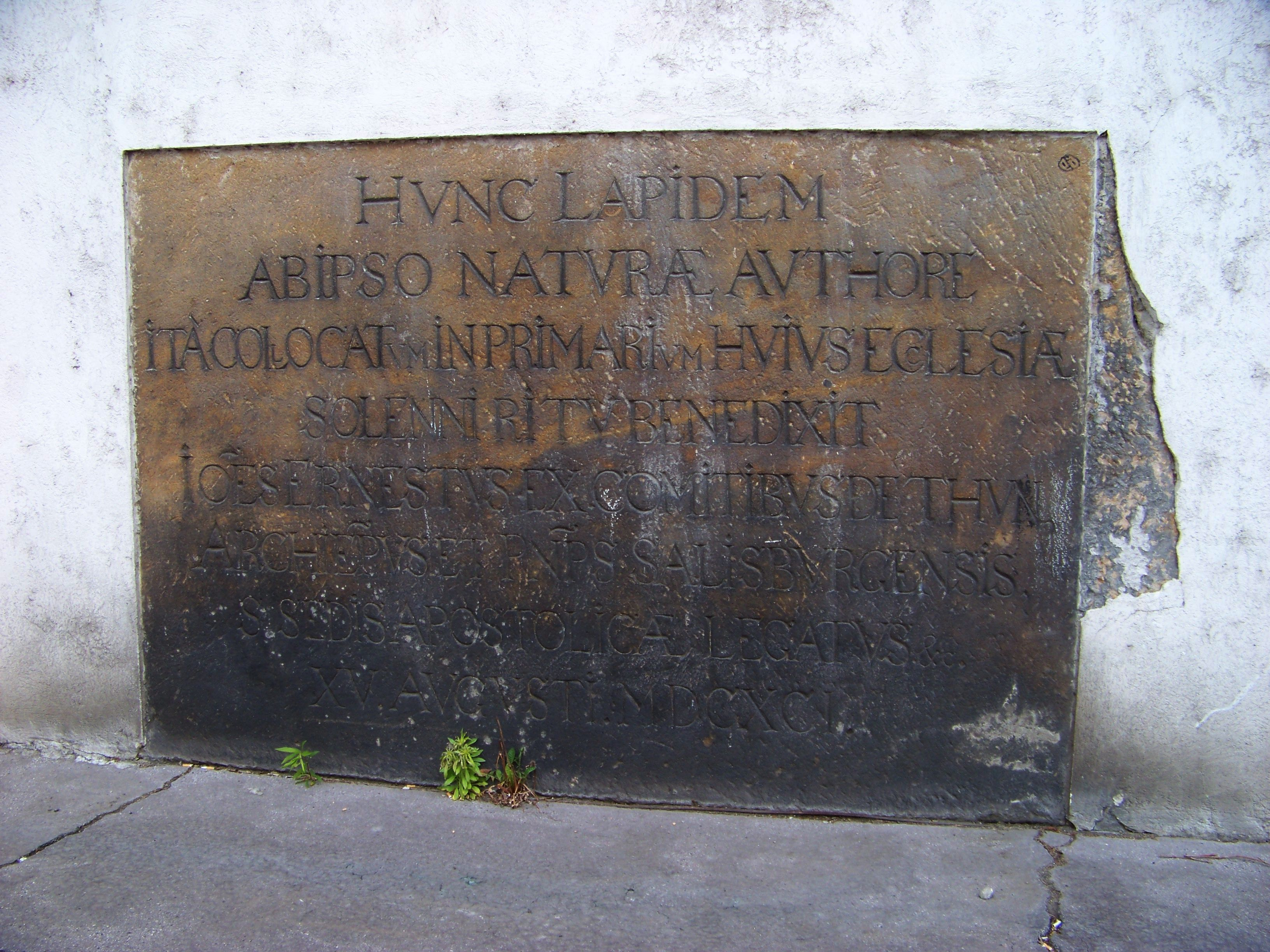 Děčín I-Děčín, Děčín District, Ústí nad Labem Region, the Czech Republic. Křížová street, Church of the Exaltation of the Holy Cross, a plaque in the south wall of the church. - OpenStreetMap(Info)